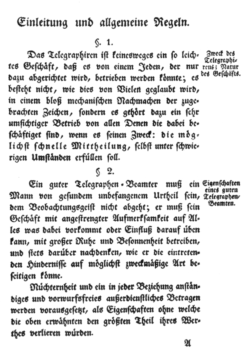 Page of an instruction-book for the prussian optical telegraph